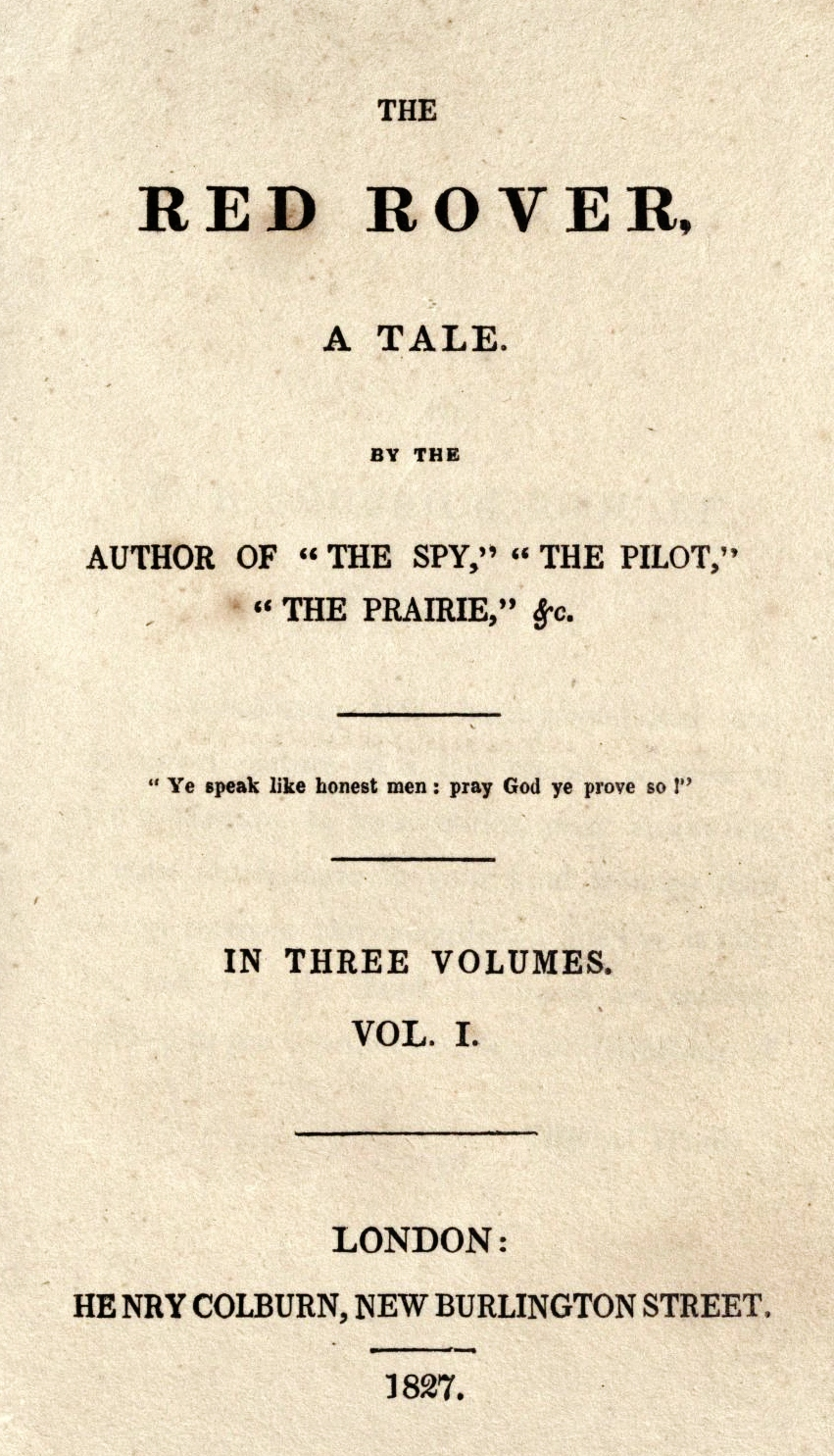 The Red Rover 1827 edition published in London